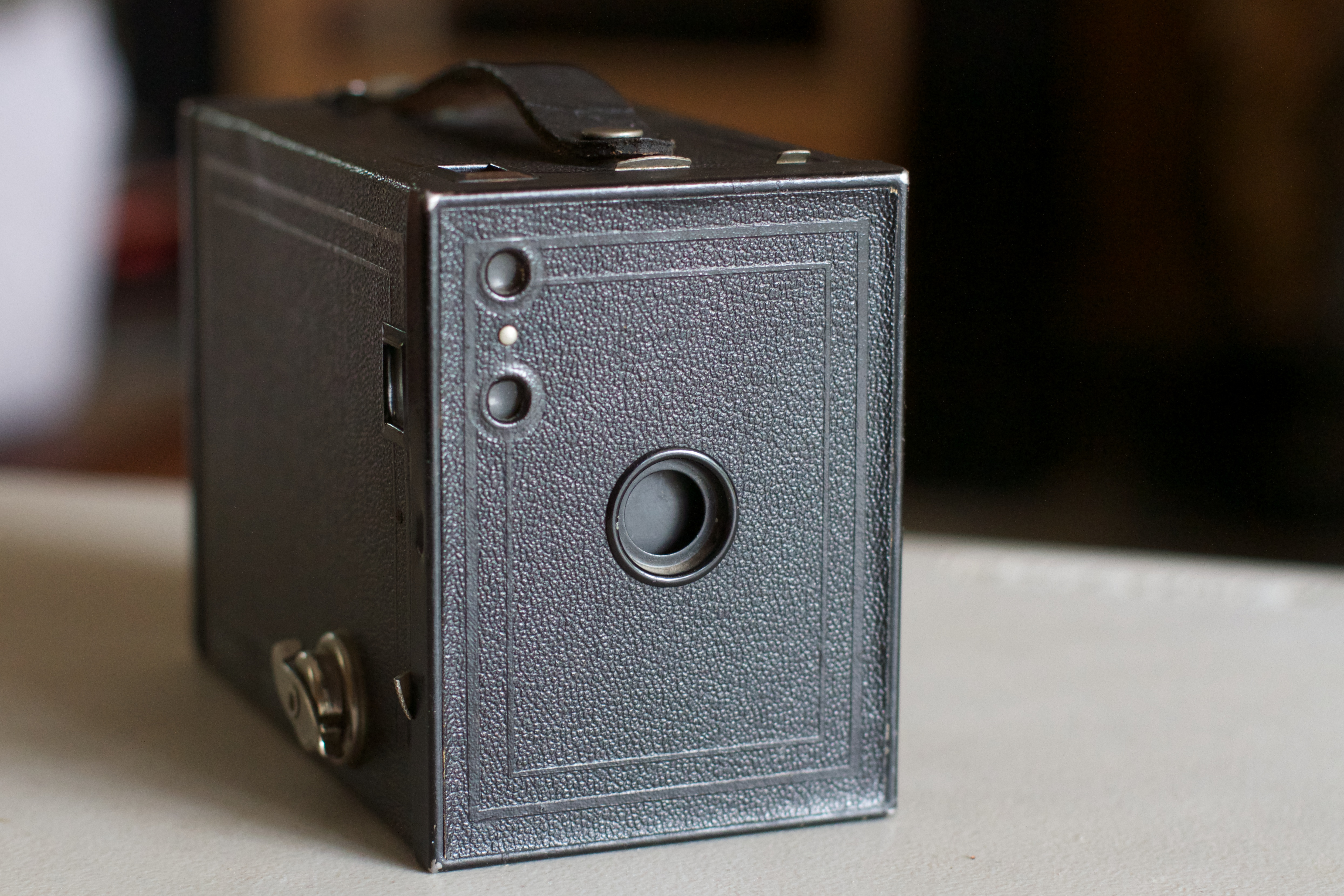 Found a Brownie camera in good shape at Granny's Antiques in Payson.